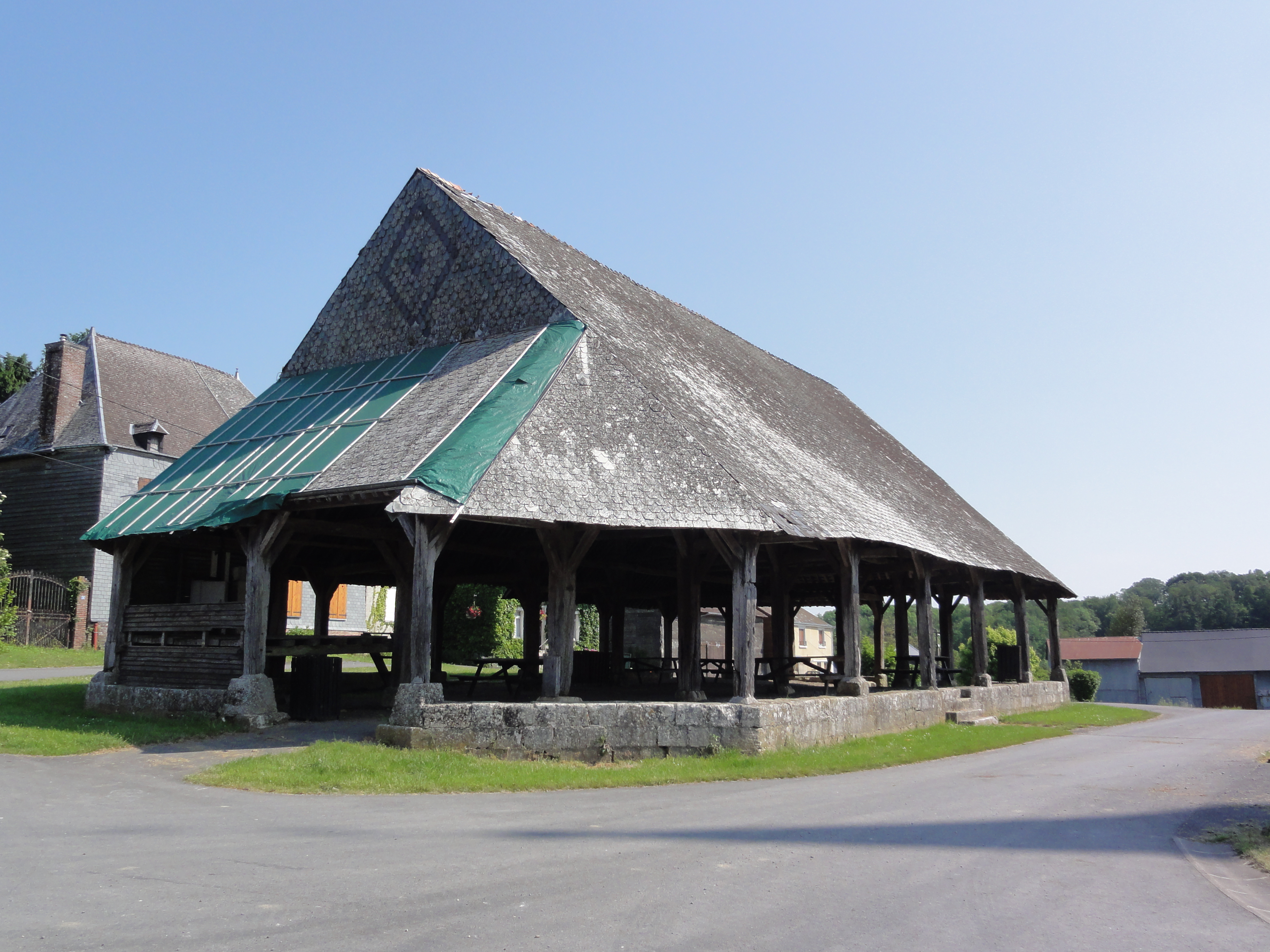 Saint-Jean-aux-Bois (Ardennes) Halles .